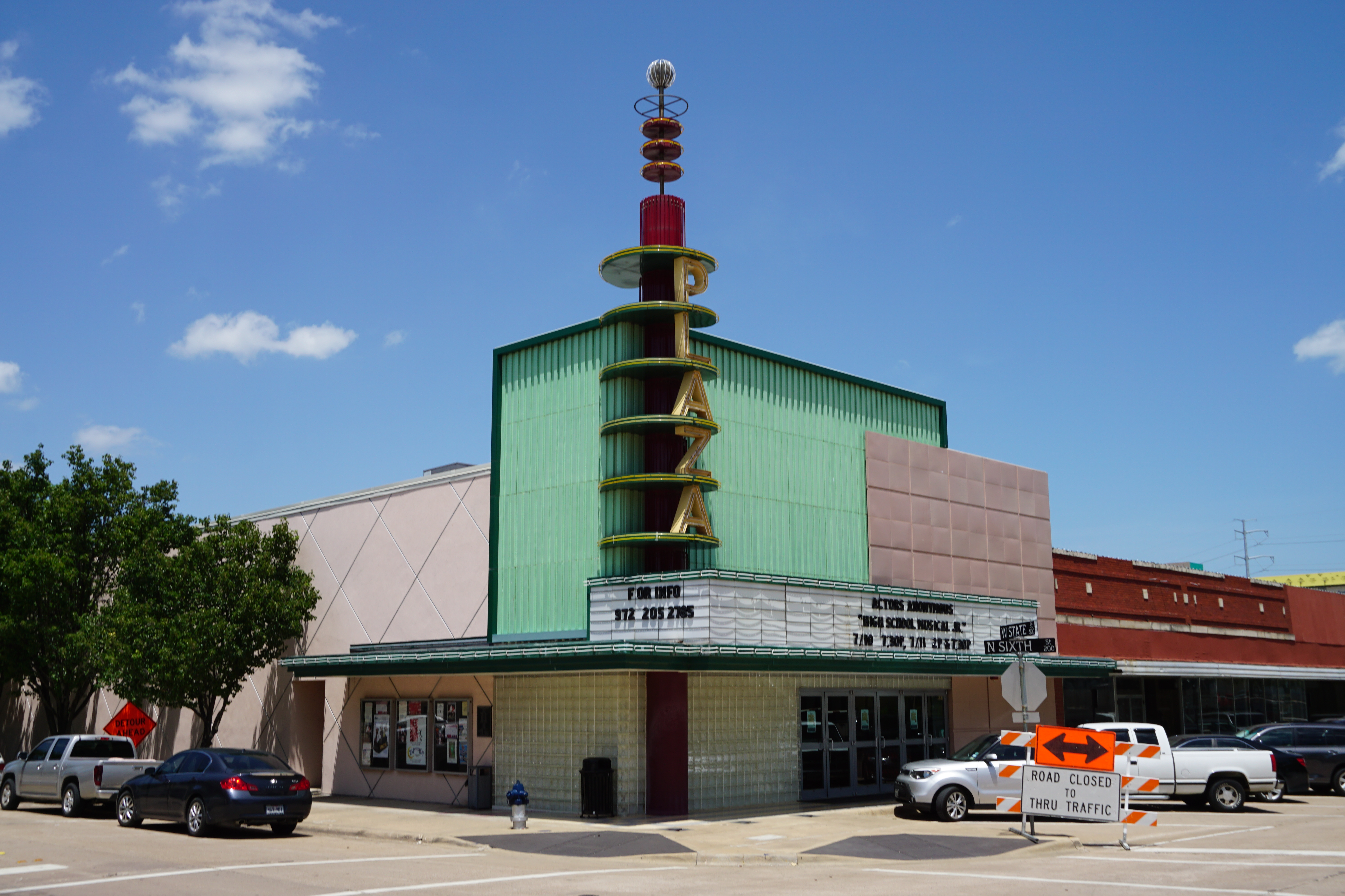 The Plaza Theatre in Garland, Texas (United States).